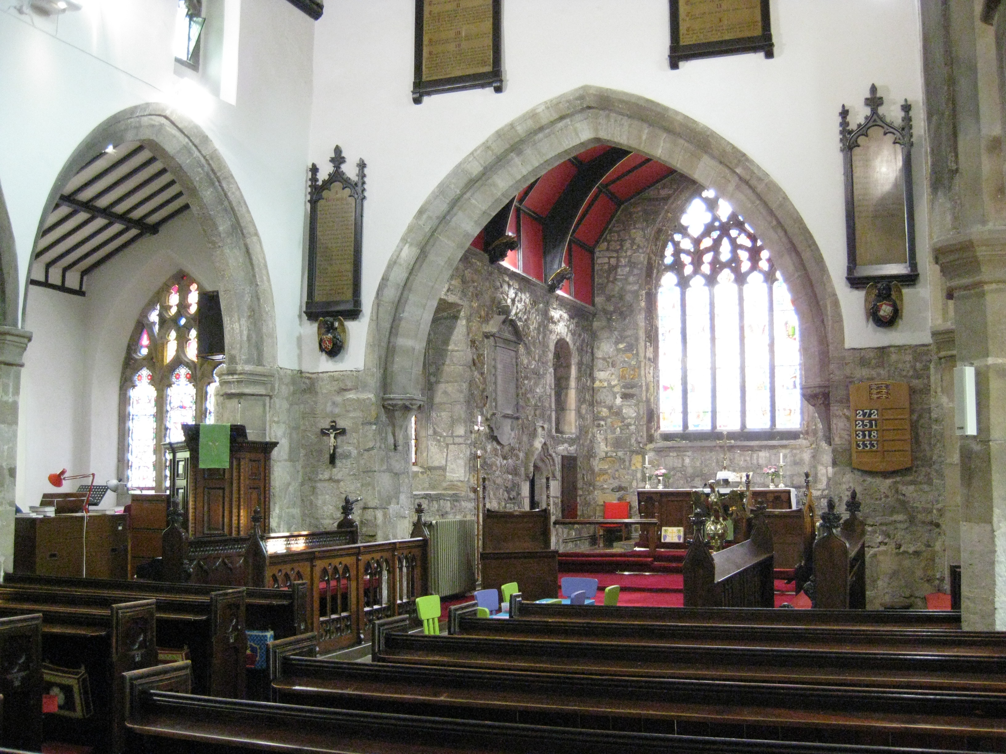 All Saints Church, Barwick-in-Elmet. View of the interior, looking towards the altar.